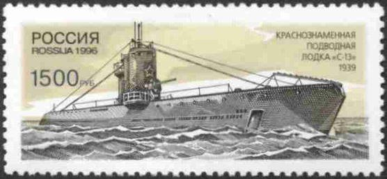 Stamp of Russia № 304, 1996. Soviet submarine S-13. 1500 roubles.